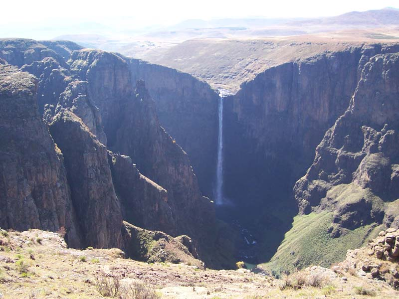 A picture of the Maletsunyane Falls, Lesotho